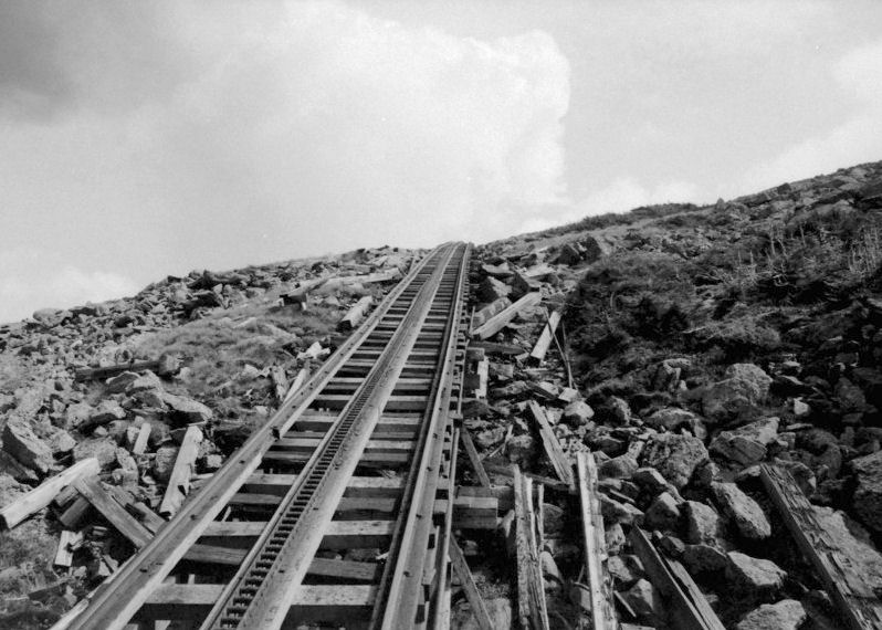 Mount Washington Cog Railway, New Hampshire, 1995